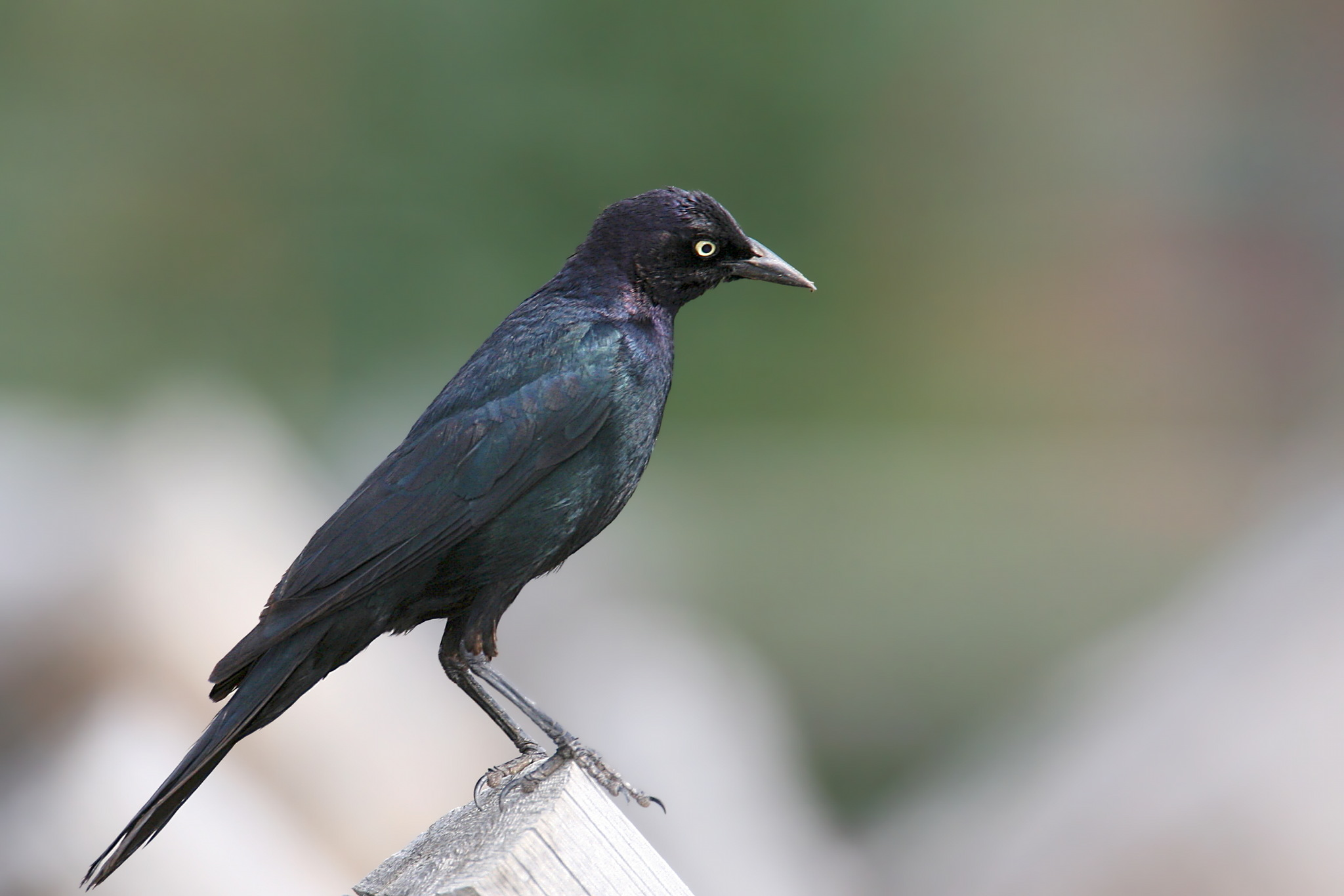 Brewer's Blackbird (Euphagus cyanocephalus).